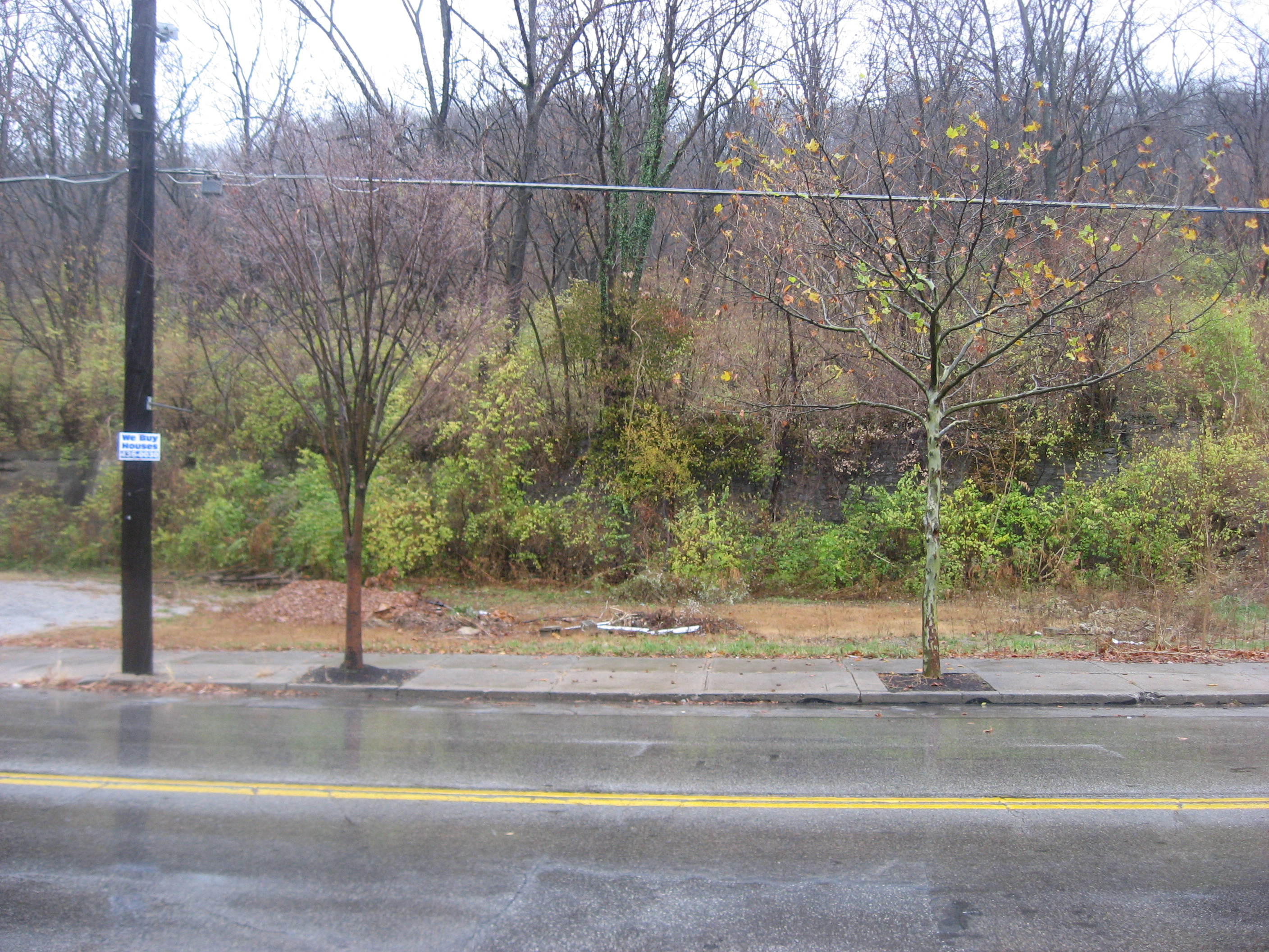 An empty lot at 4030 Eastern Avenue in the Columbia-Tusculum neighborhood of Cincinnati, Ohio, United States. This lot was formerly the location of the L.B. Robb Drugstore; built in 1860, it is listed on the National Register of Historic Places despite having been destroyed.